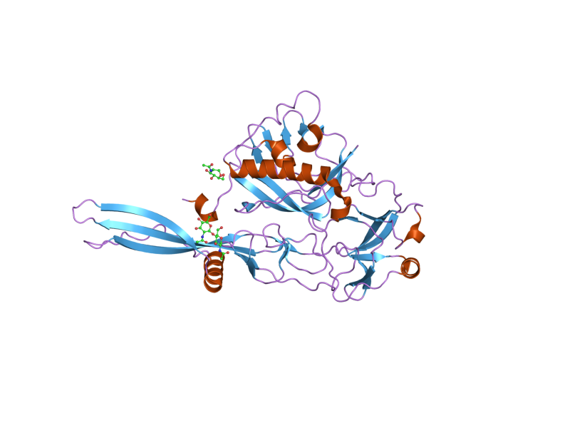 Cartoon representation of the molecular structure of protein registered with 2j6j code.